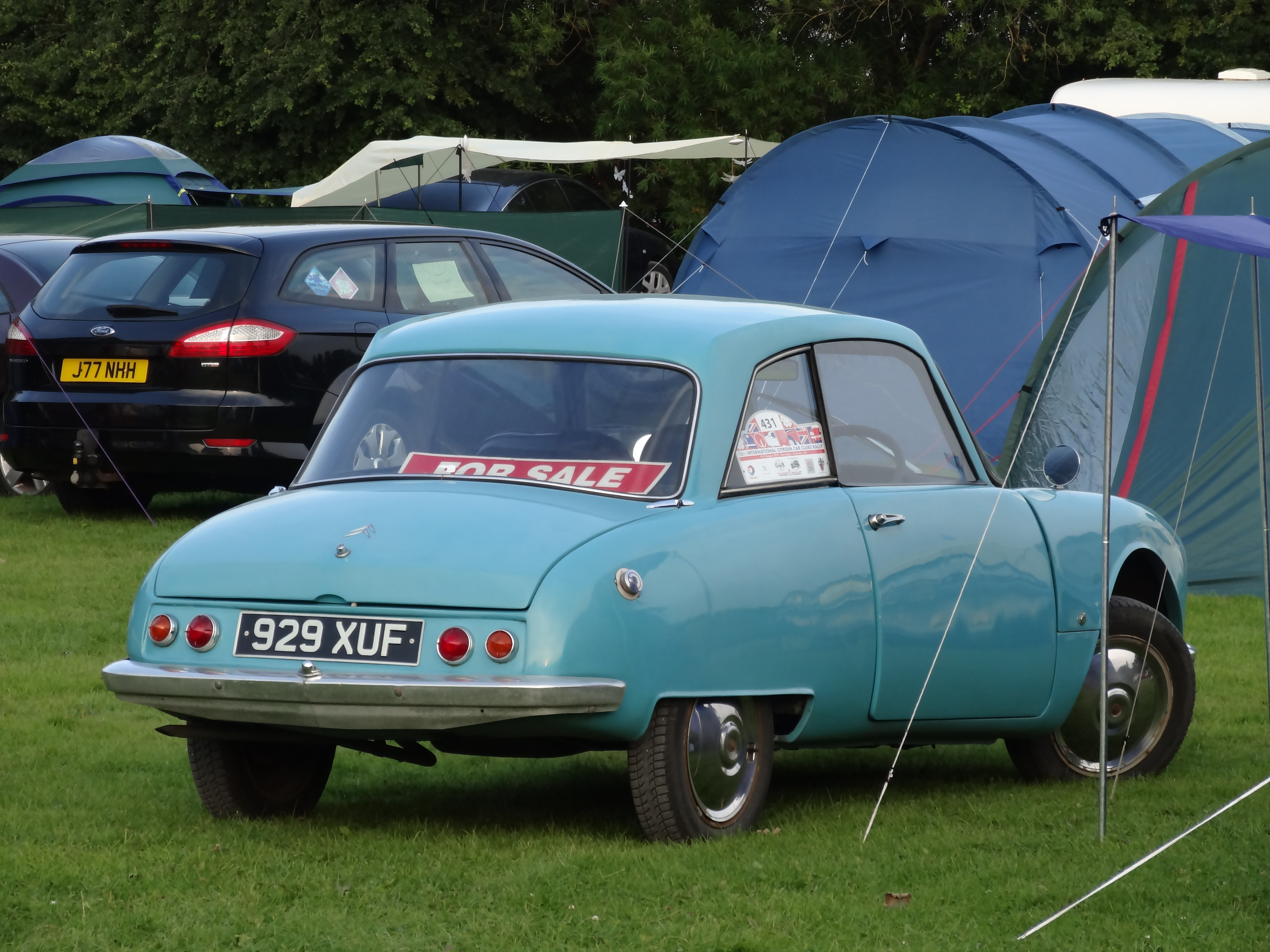 A Citroën Bijou at the 2012 International Citroën Car Clubs Rally in Harrogate, North Yorkshire.